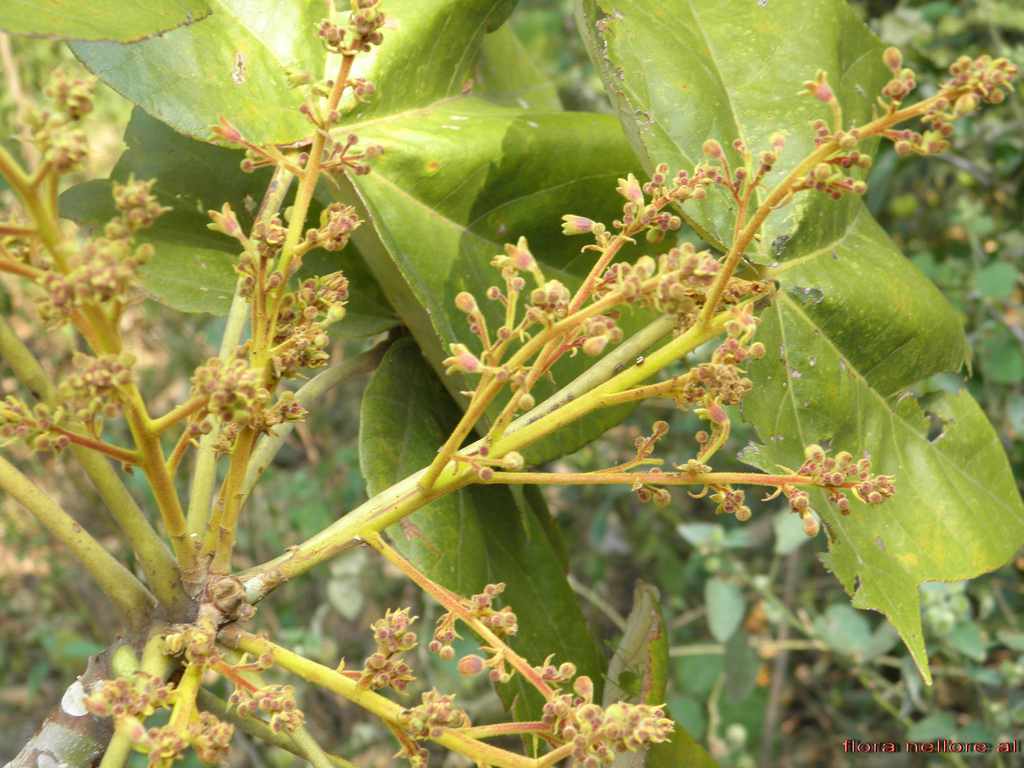 Family: Sterculiaceae Distribution:In hill forests. India, Sri Lanka and Malaya Peninsula. 6-8m tall deciduous trees; bark whitish, smooth, peeling off in flakes. Leaves 16-30x15-25cm, palmately 3-7 lobed. deltoid ovate, scarbid above, velvety below. Flowers 6-8mm long, yellow, in 10-15cm long panicles.Flowers densly viscid-hairy, calyx pubescent within, Follicles armed with sharp stiging hairs. Photographed at Eastern ghats of Nellore district. Locally in telugu it is known as Tella poliki.. Gu is extracted from the stem.